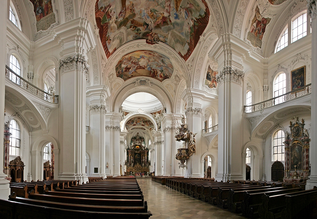 Weingarten: interior of St. Martin's Abbey. The current church was built between 1715 and 1724 in the Italian-German Baroque style. It´s the second largest church in Germany and is the largest Baroque church in Germany.